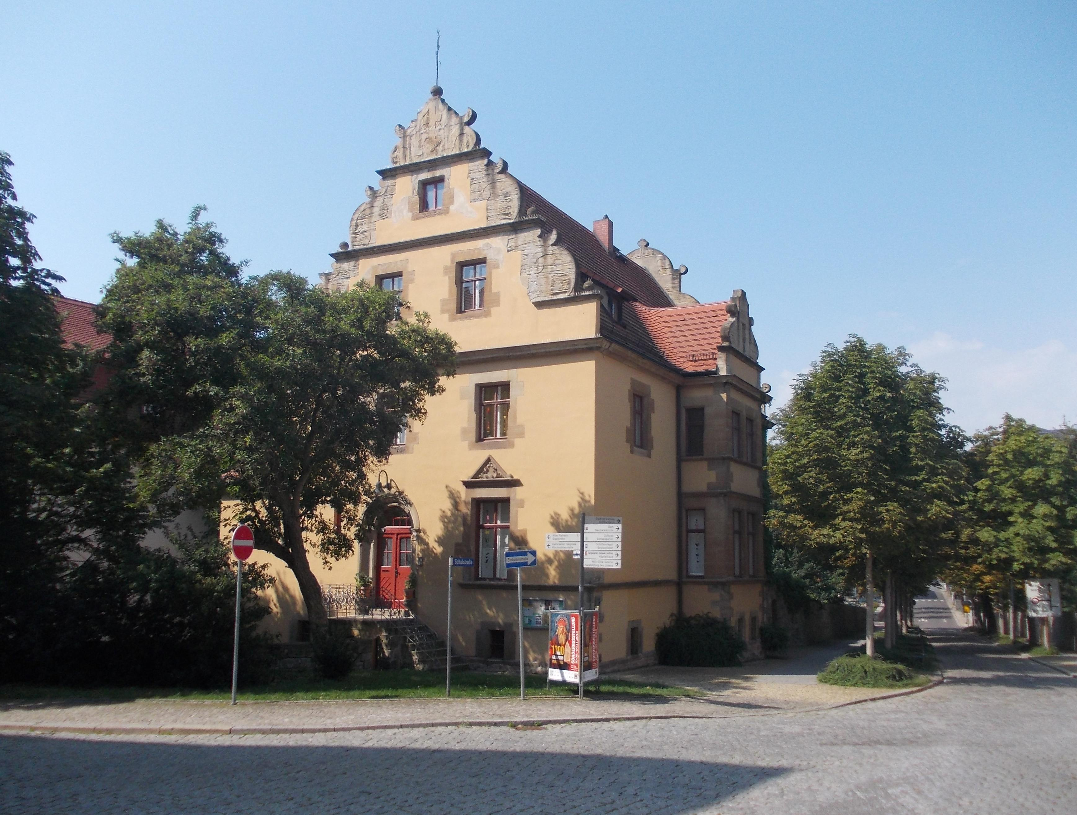 No. 6, Domstrasse in Merseburg (district: Saalekreis, Saxony-Anhalt)